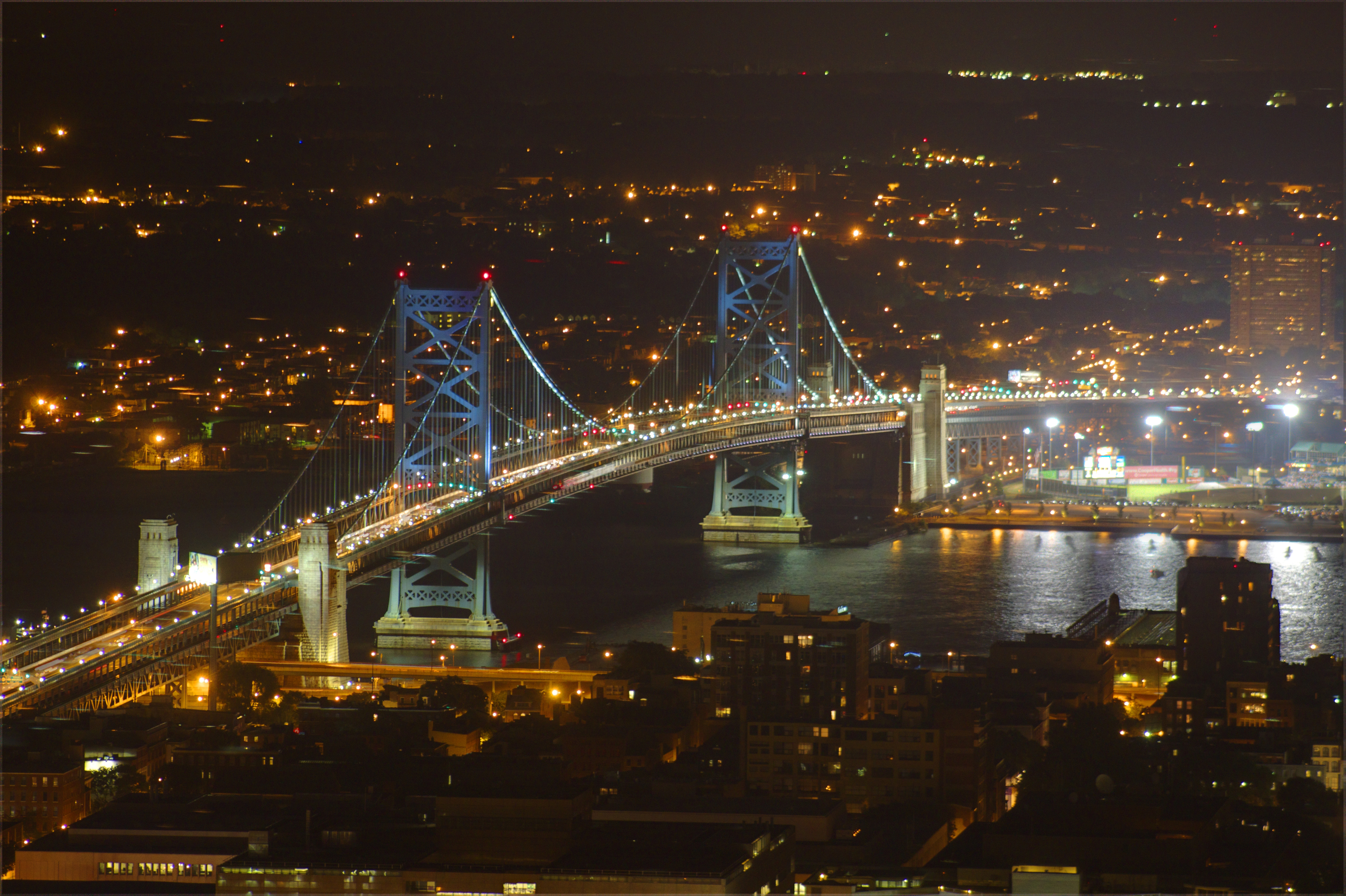 A shot from the Pyramid Club of the Benjamin Franklin Bridge at night. First posted at: Brozzetti Gallery